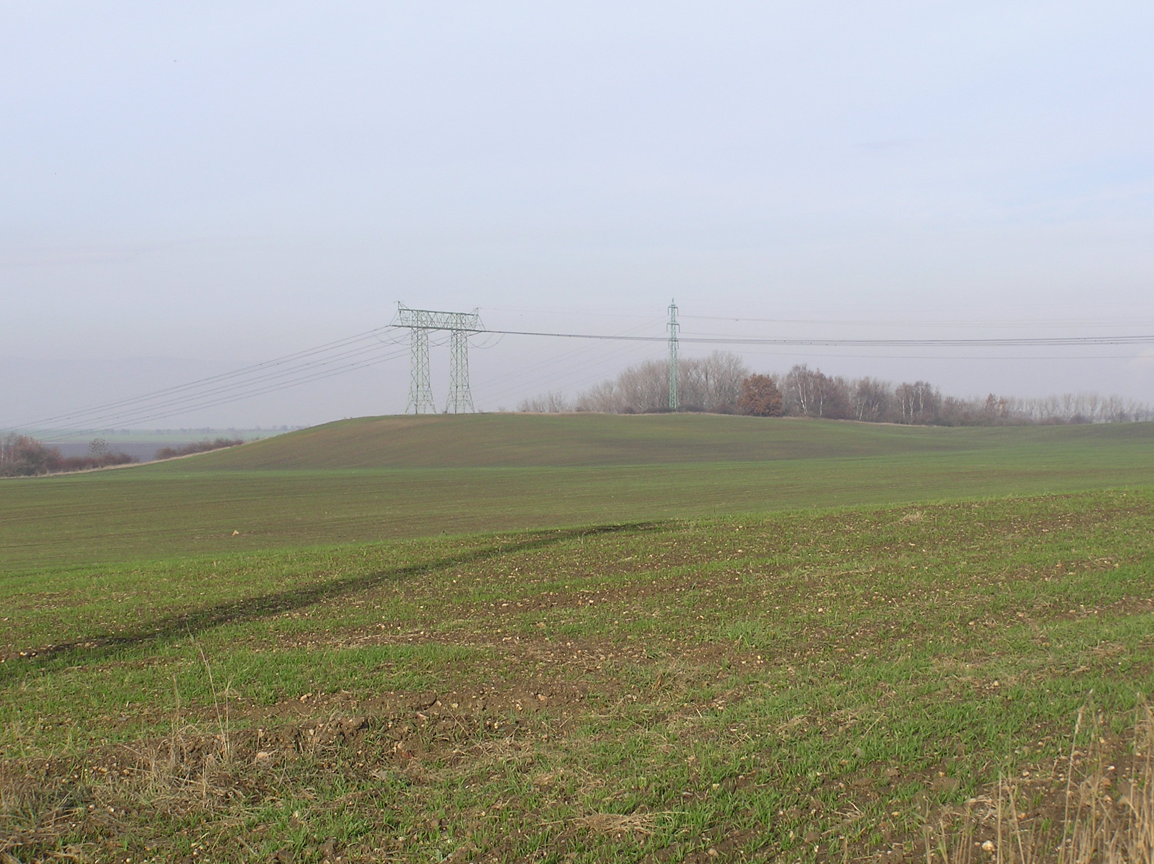 Velemyšleves - archaeological site of Knovíz Culture